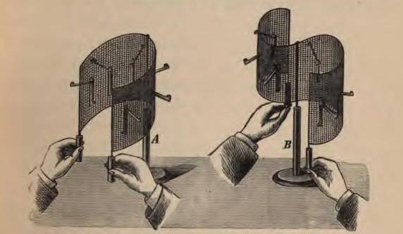 Демонстрационный физический прибор